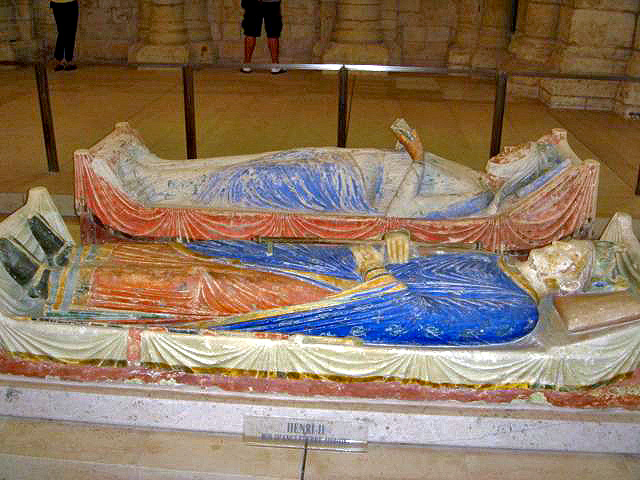 Tombs of Henry II and Eleanor of Aquitaine in Fontevraud Abbey